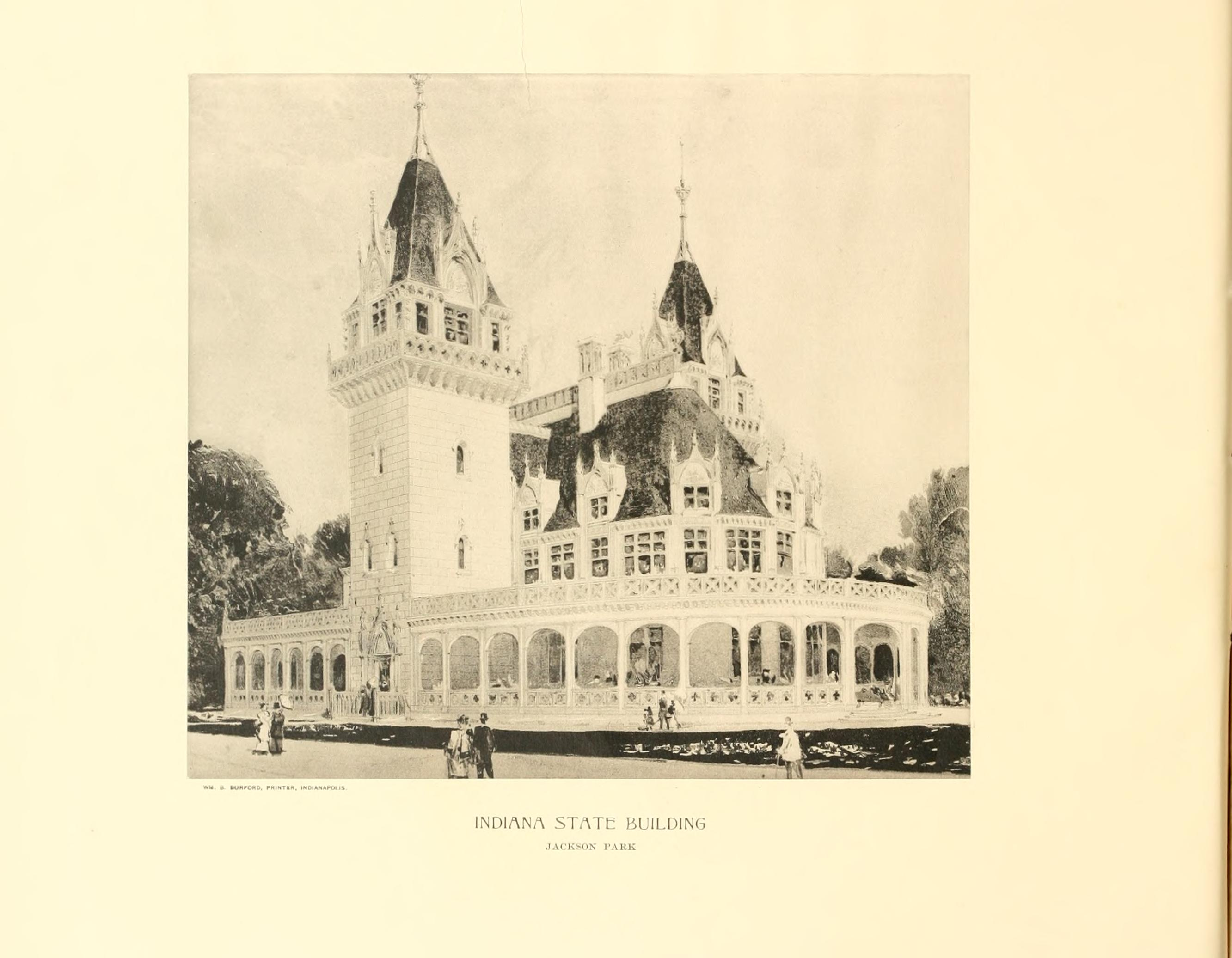 Subject: Indiana State Building (Chicago, Ill.); World's Columbian Exposition (1893 : Chicago, Ill.) Publisher: [Indianapolis : Wm. B. Burford, Printer Possible copyright status: NOT_IN_COPYRIGHT Language: English Call number: 31833024767409 Digitizing sponsor: MSN Book contributor: Allen County Public Library Genealogy Center Collection: allen_county; americana ]